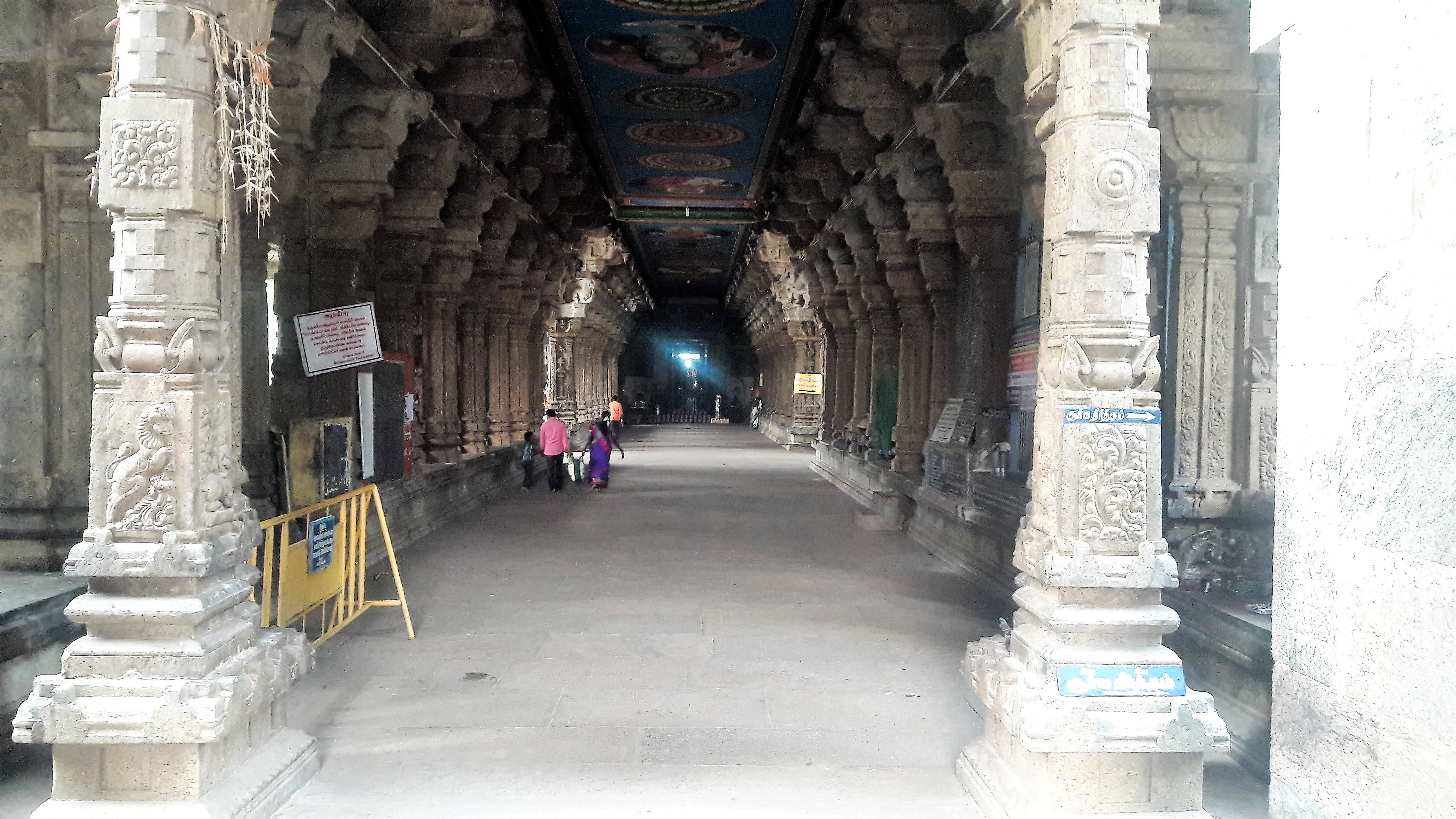 Adhi Ratneswarar Temple, Thiruvadanai